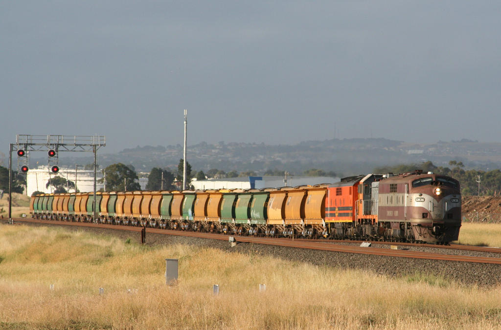 GM36, T386 and GM43 on an standard gauge El Zorro grain train near Corio, Victoria, Australia. T386 is their own loco, GM36 is a preserved heritage loco, other GM hired, hoppers from ARG and GWA.